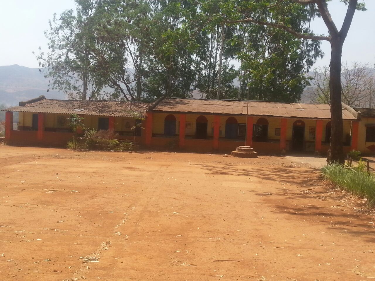 जिल्हा परिषद प्राथमिक शाळा मेरावणे